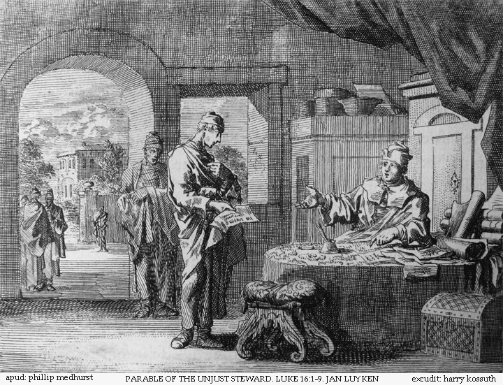 An etching by Jan Luyken illustrating Luke 16:1-9 in the Bowyer Bible, Bolton, England.